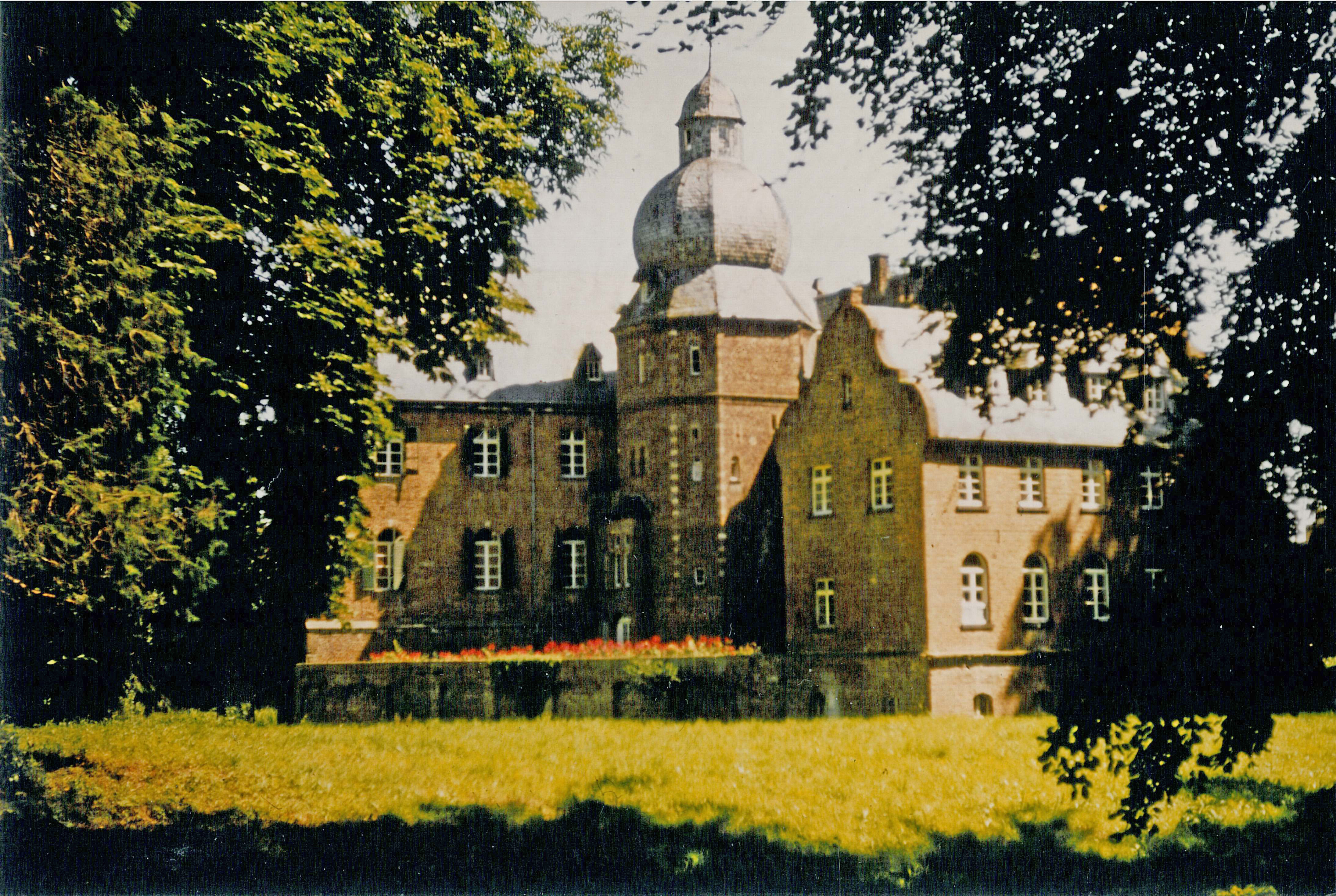 The water tower was built by the kngights of Bergerhausen in the 13th Century. In 1976 Clemens Freiherr von Loë leased the plant to the Psychotherapeutic Institute Bergerhausen led by Hans-Werner Gessmann. The Institute was built up till 1989 to a well-known therapeutic center.